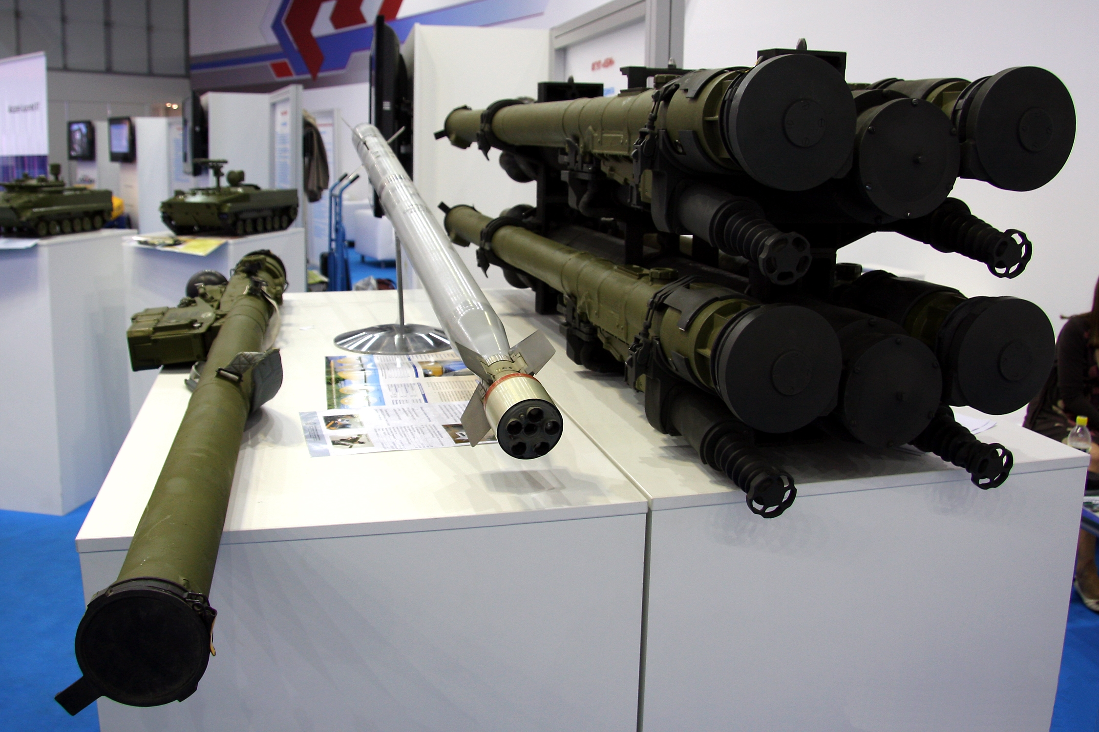 Igla-S MANPADS and Strelets set for firing of missiles of Igla-type MANPADS.